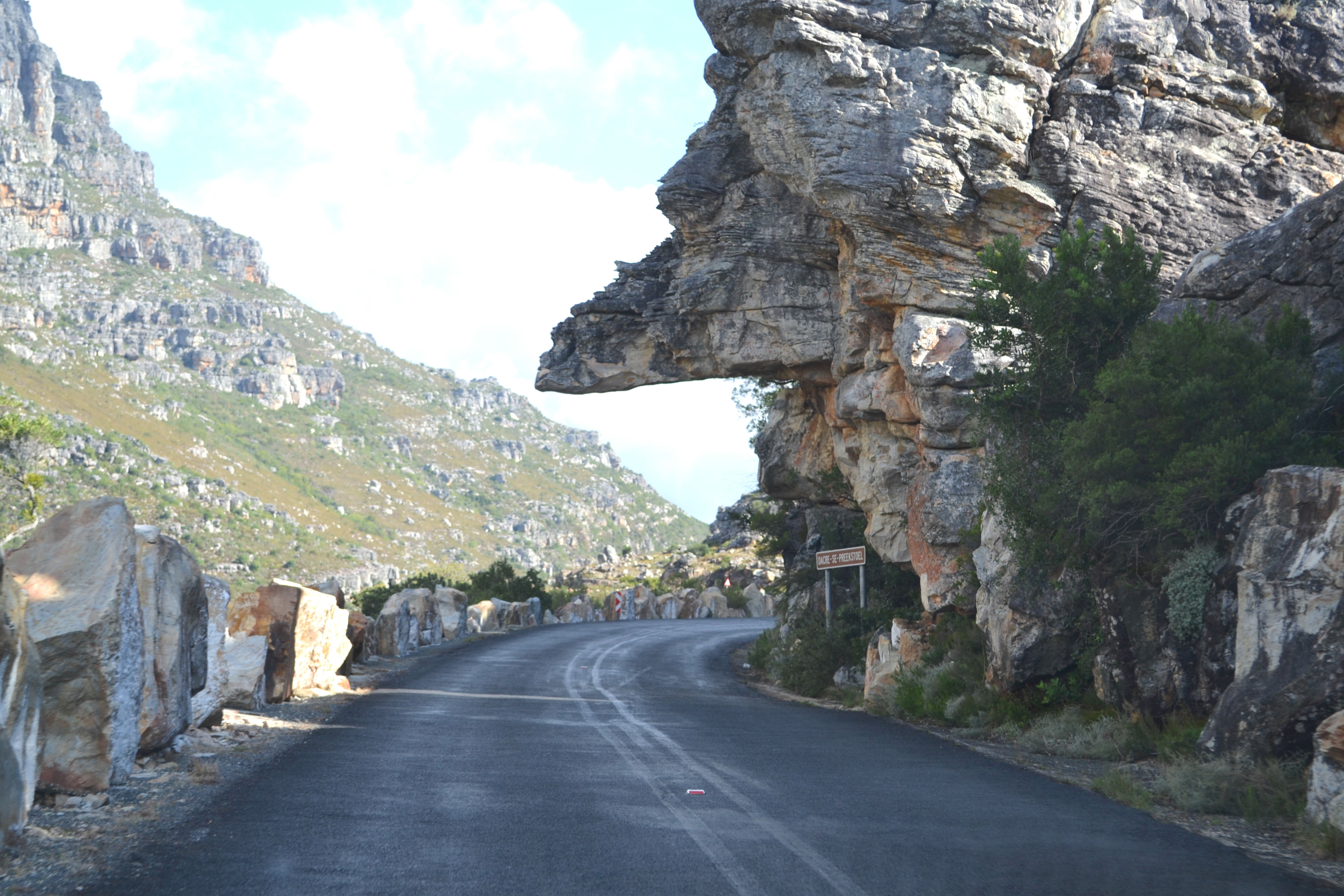 Western Cape.